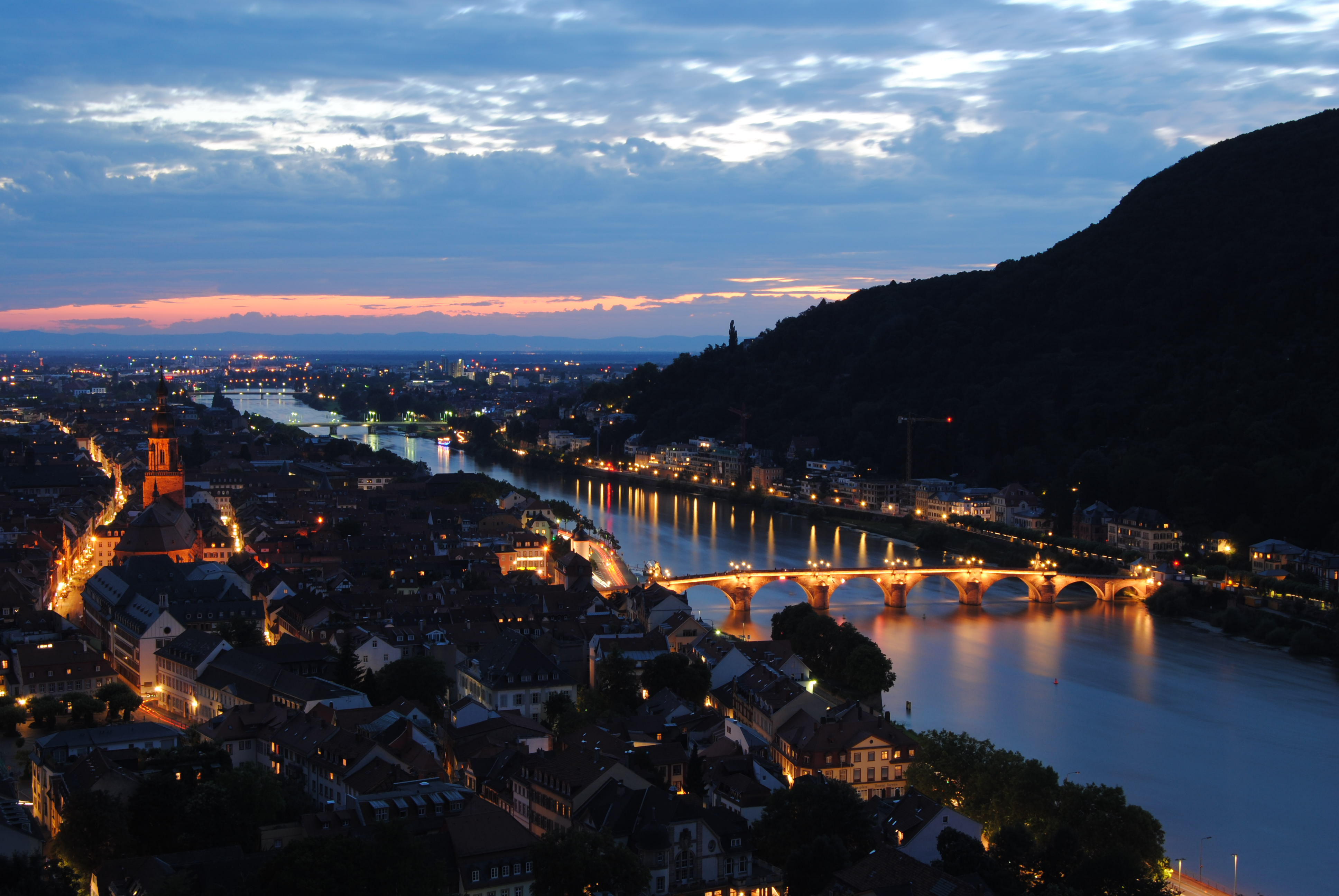 Heidelberg at Night from the castle